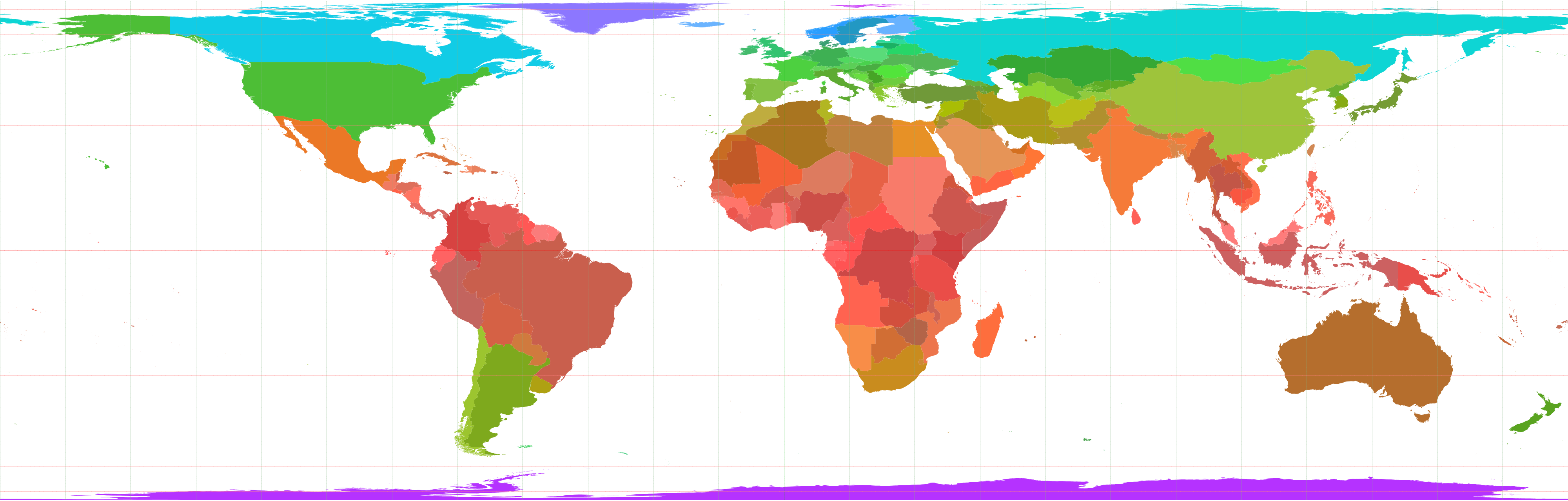 Political map of the World with cylindrical projection with colours that vary with latitude.